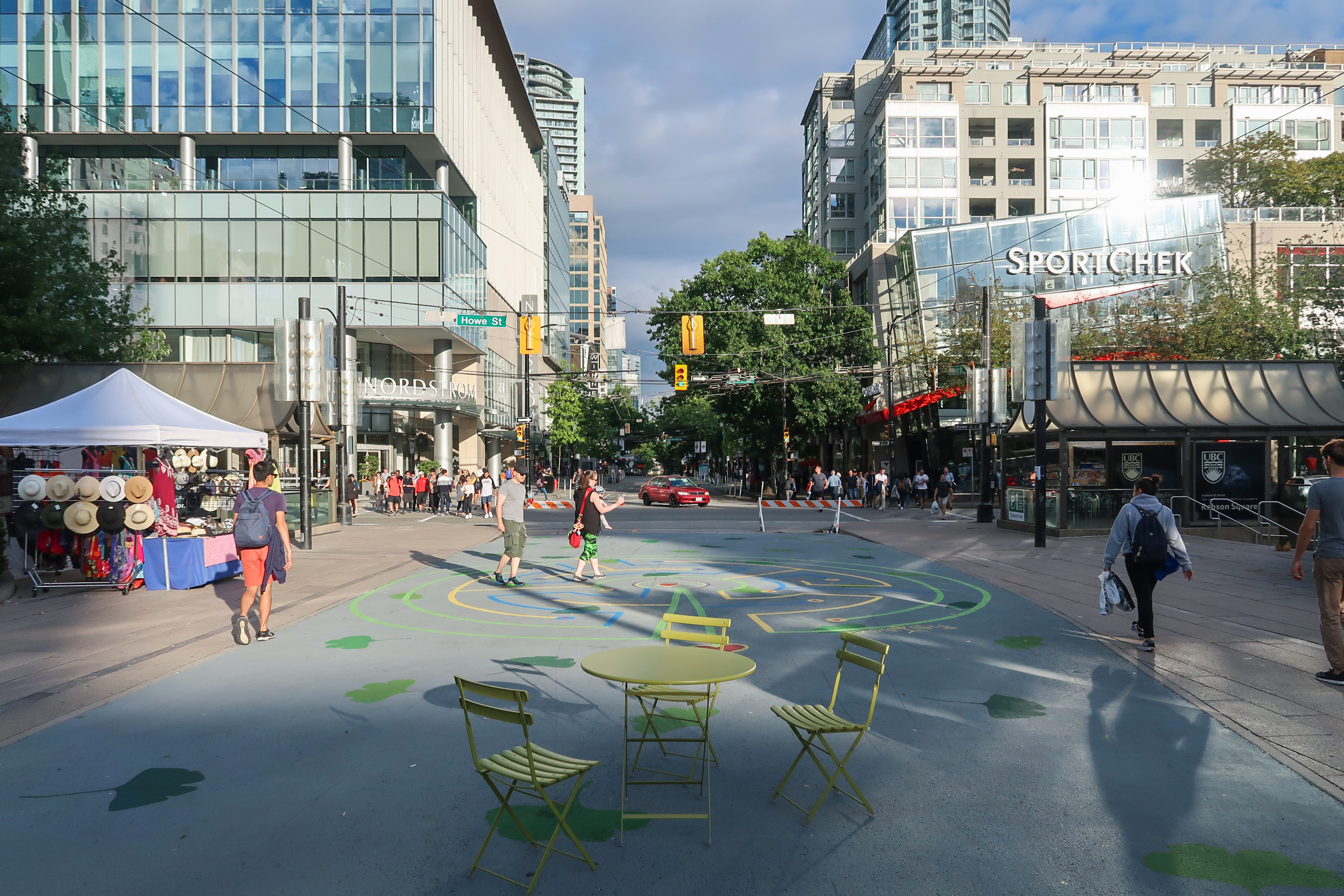 Robson Street shared space